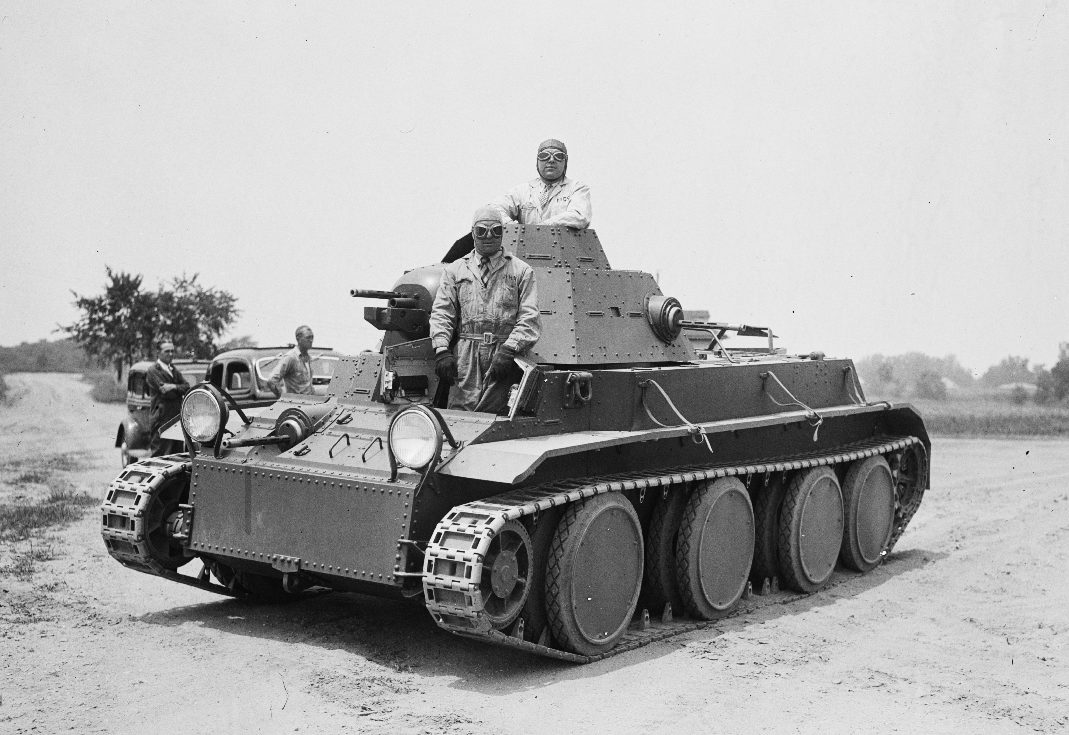 Christie T3E2 tank undergoing tests, location unknown.